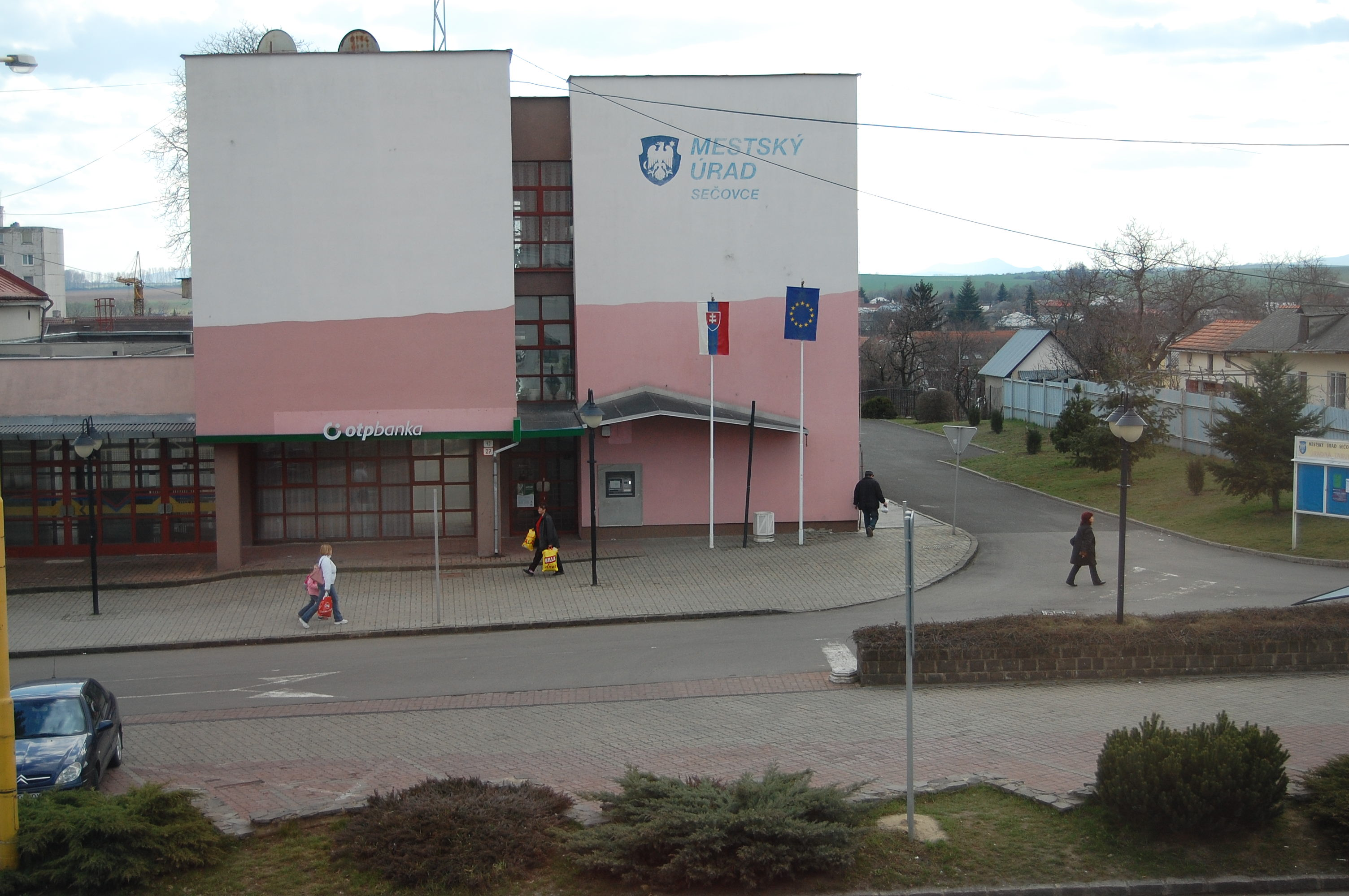 Municipality building in Sečovce